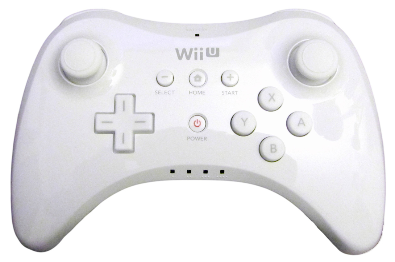 A newly unboxed white Wii U Pro Controller